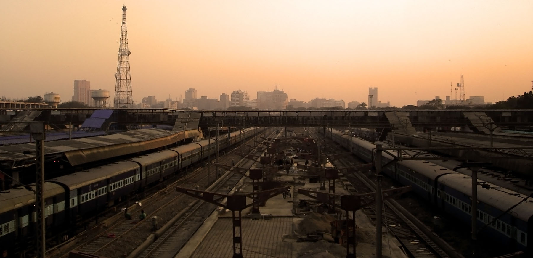 The skyline of New Delhi as seen from the New Delhi Railway Station